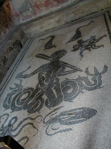 This mosaic is on the floor of the frigidarium of the women's baths.